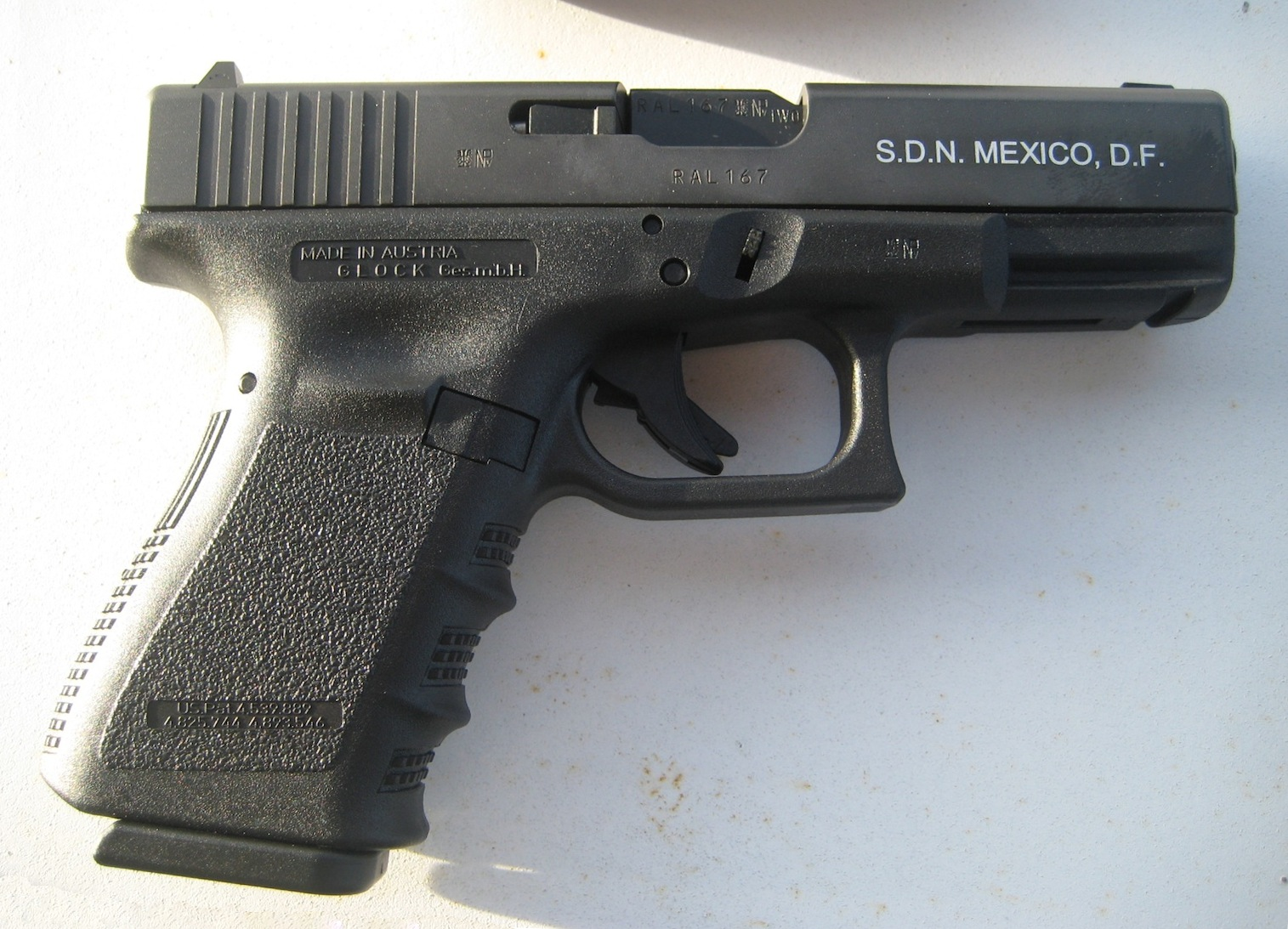 Semiautomatic direct-blowback operated safe-action compact Glock pistol model 25, regional variant SDN chambered in .380 ACP (9 mm kurtz, 9mm short or 9mm Browning).